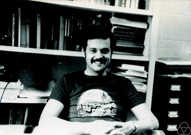 Sheldon Newhouse